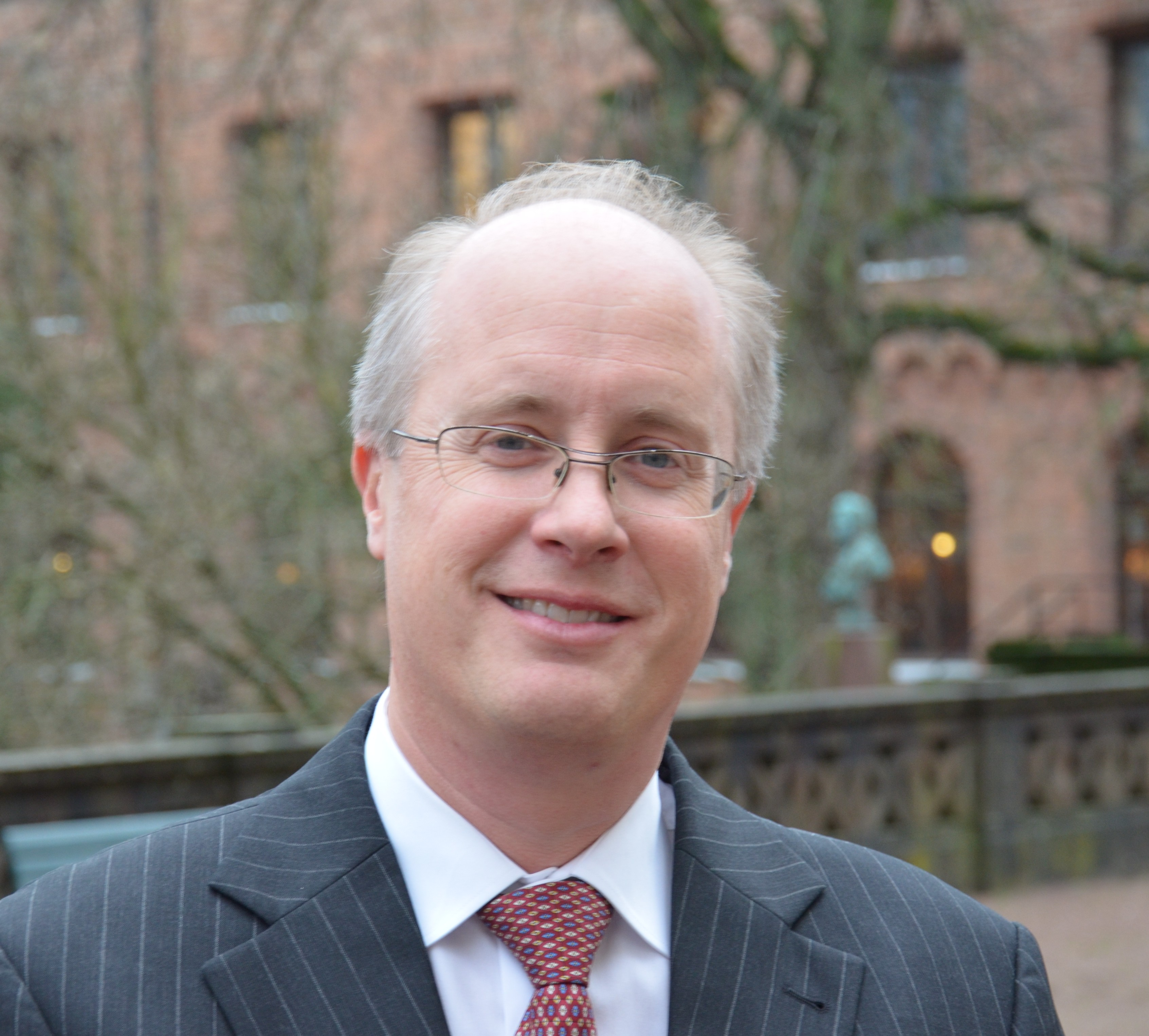 Jesper Svartvik, professor, University of Lund, Sweden